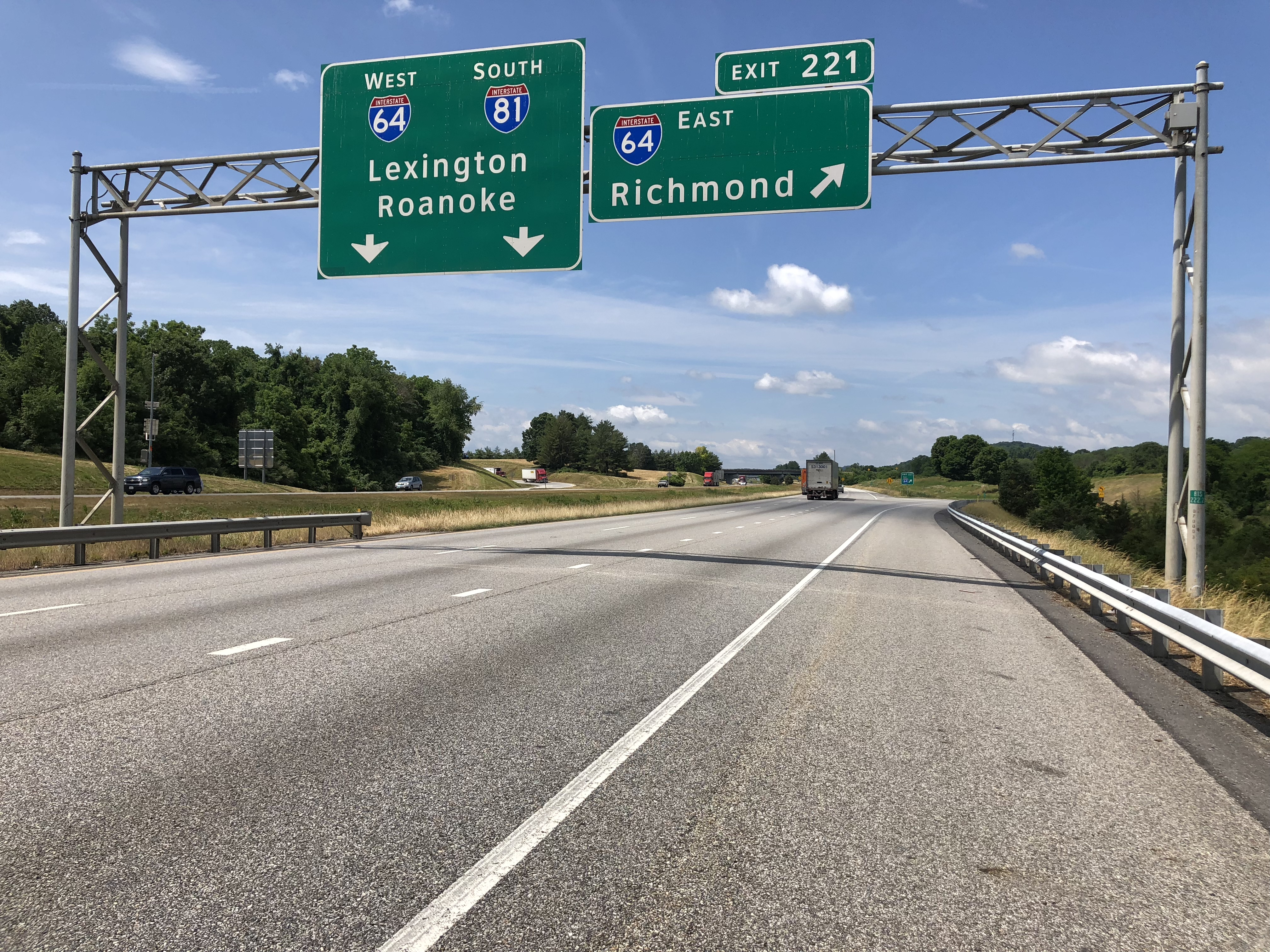 View south along Interstate 81 at Exit 221 (Interstate 64 EAST, Richmond) in Peyton, Augusta County, Virginia